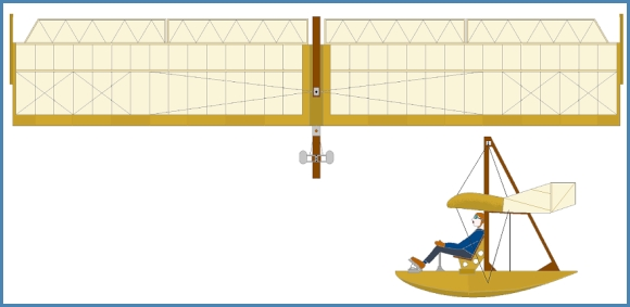 Voeppel Schulgleiter Flying Wing